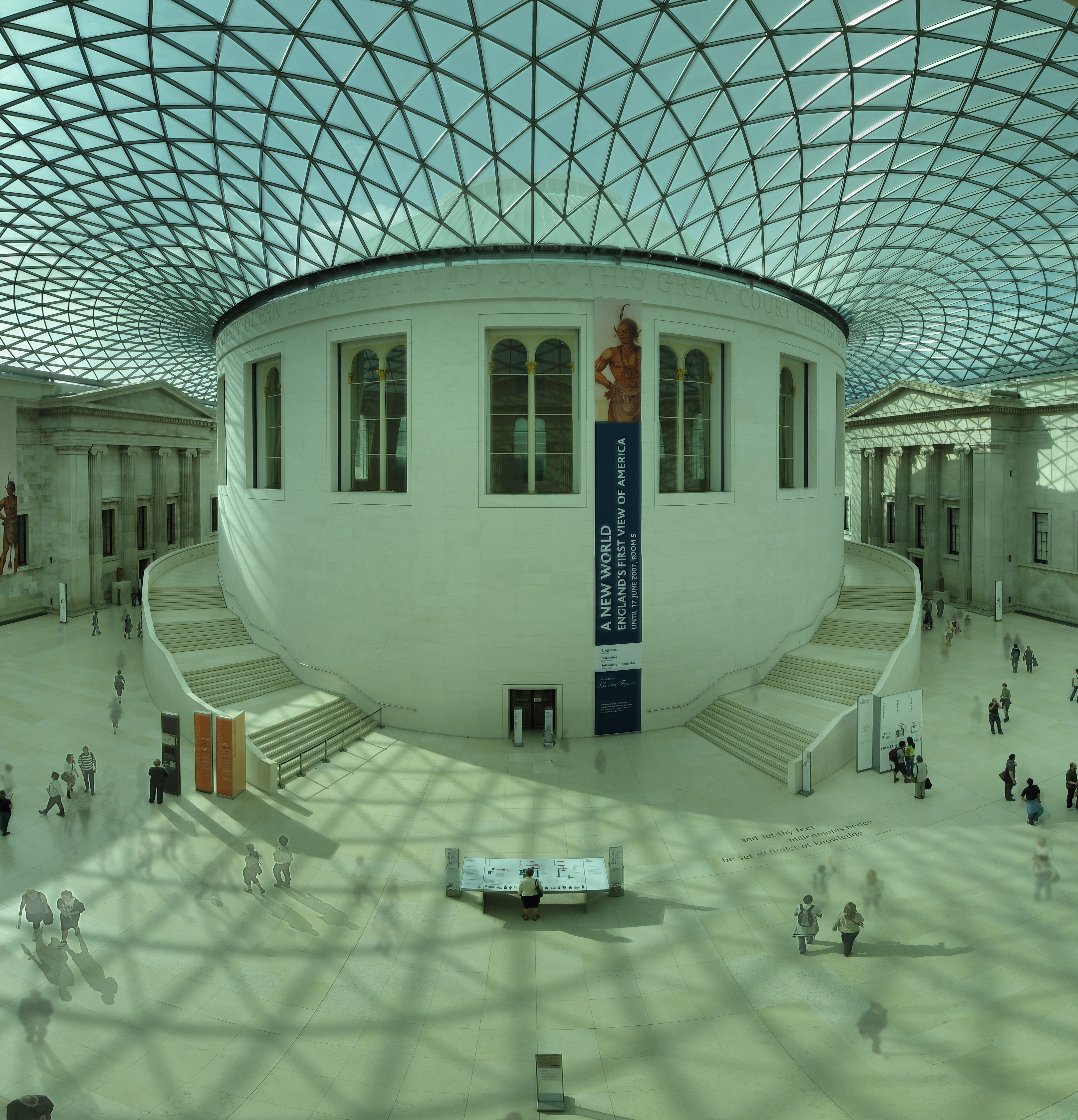 British Museum Panorama, London